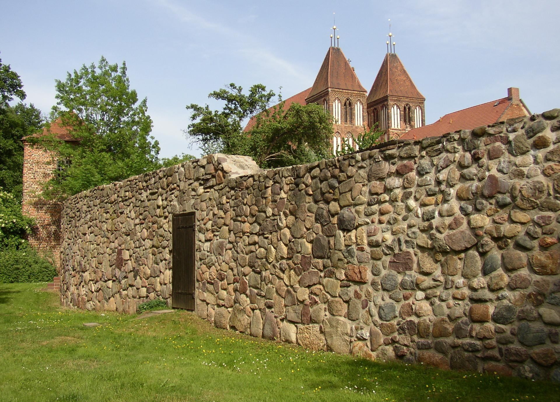 City wall in Luckau in Brandenburg, Germany